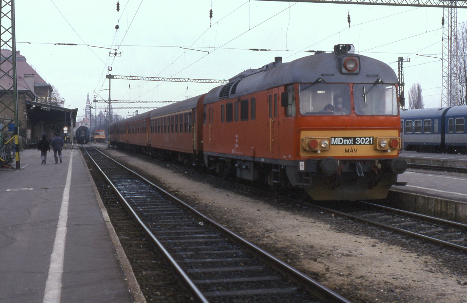 MDmot 3021 seen at Szeged on 3 February 1998.